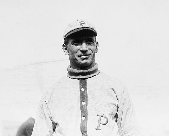 "Tommy Leach, Pittsburgh, NL (baseball)" A 1911 image, from the Bain News Service, of Tommy Leach, a baseball player.